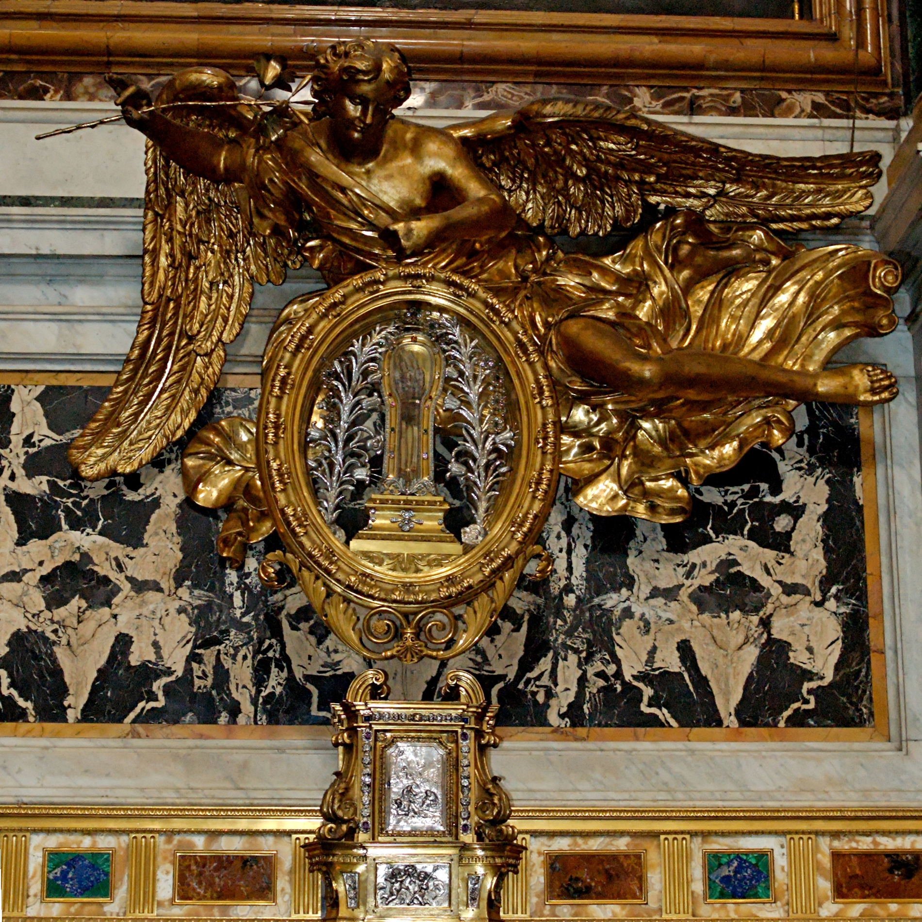 reliquary with the arm of St. Francis Xavier, church of the Gesù, Rome, Italy.